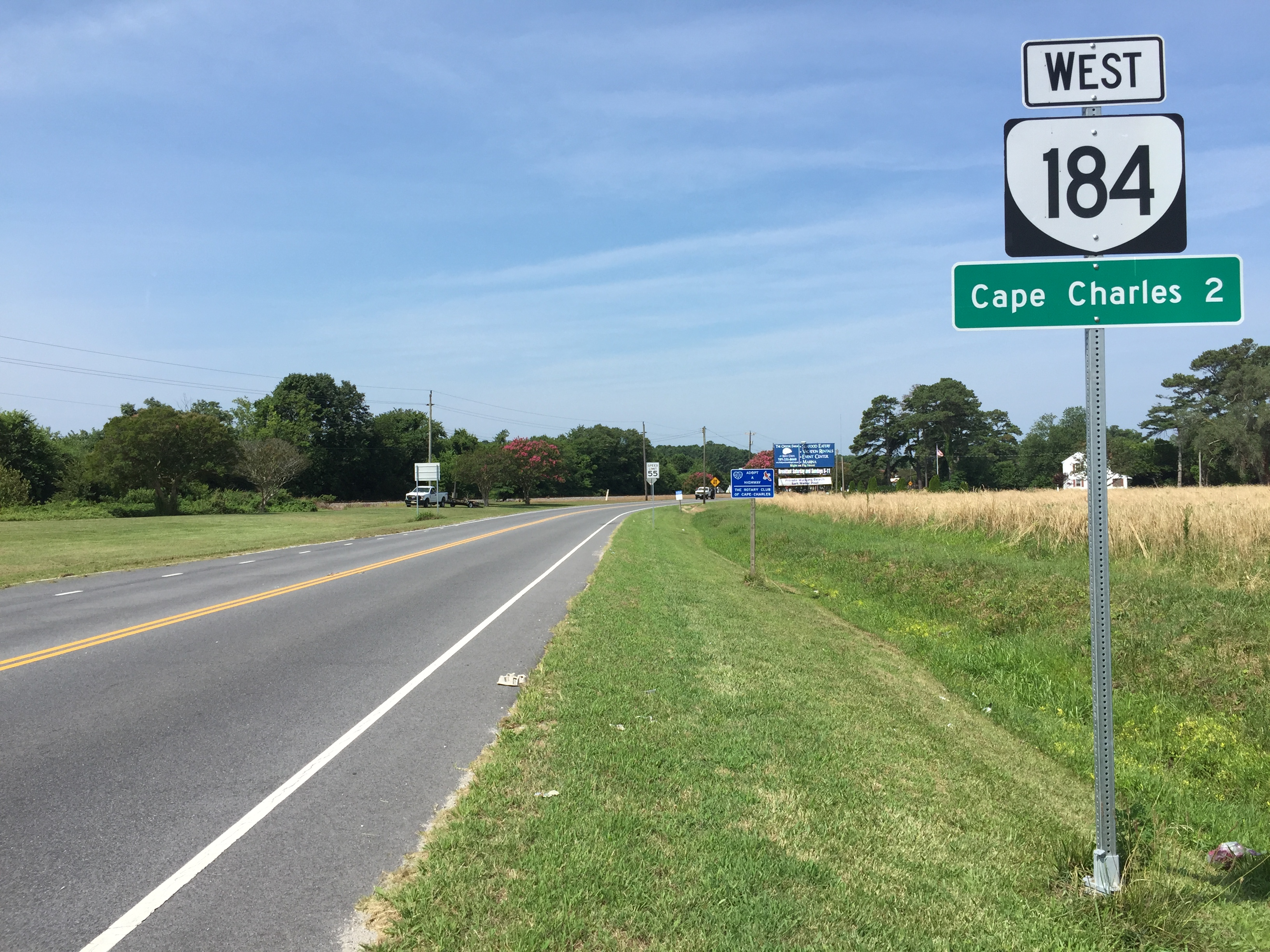 View west along Virginia State Route 184 (Stone Road) at U.S. Route 13 (Lankford Highway) in Cape Junction, Northampton County, Virginia